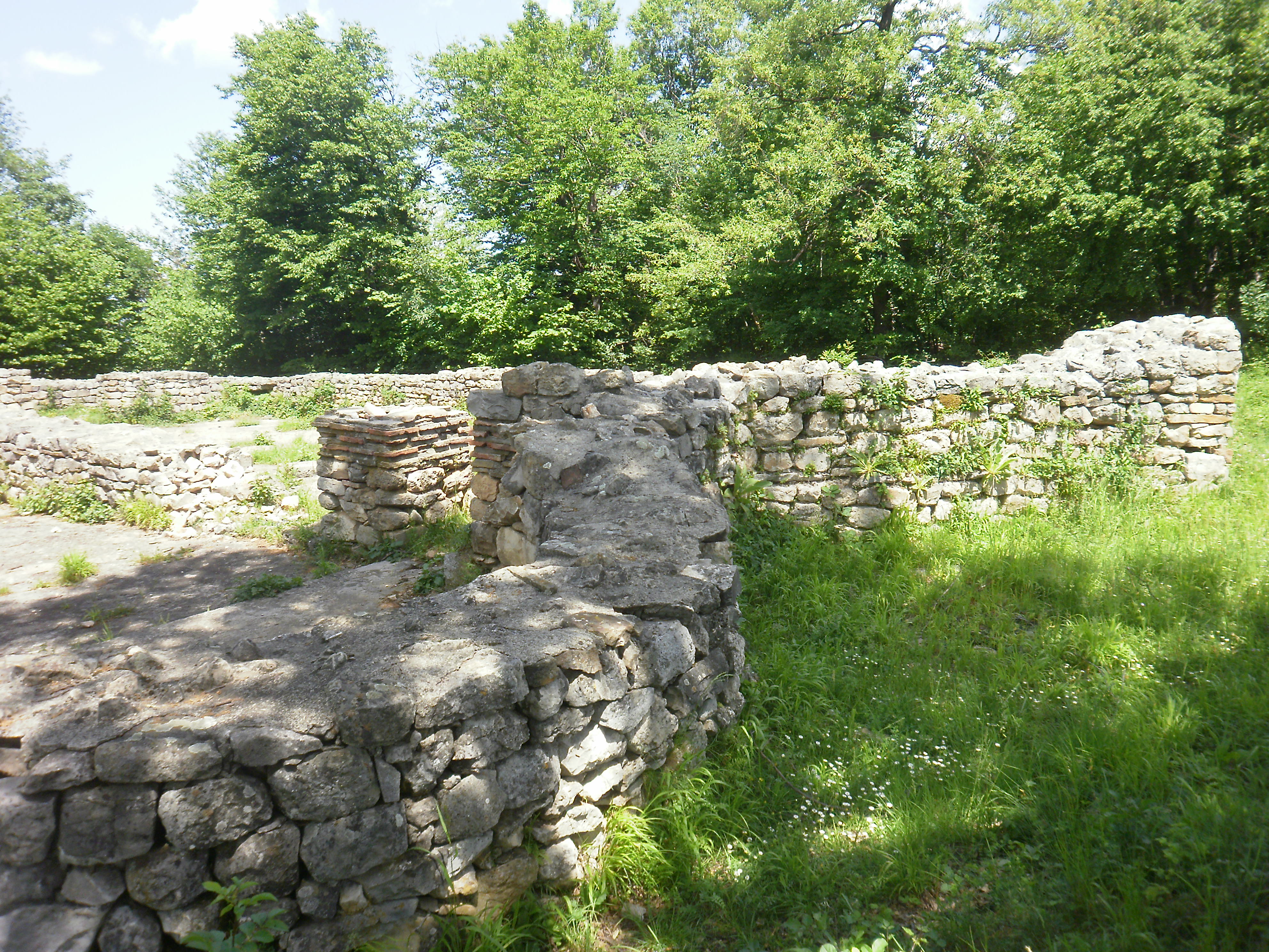 Gradishte Fortress, Gabrovo, Bulgaria